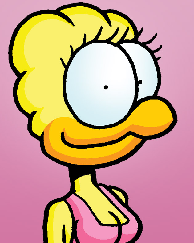 Michael and Stefan Strasser